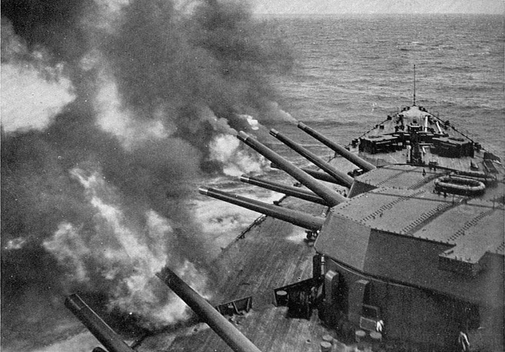 Nine 16-inch guns of HMS Rodney firing a salvo Photo: Charles E. Brown